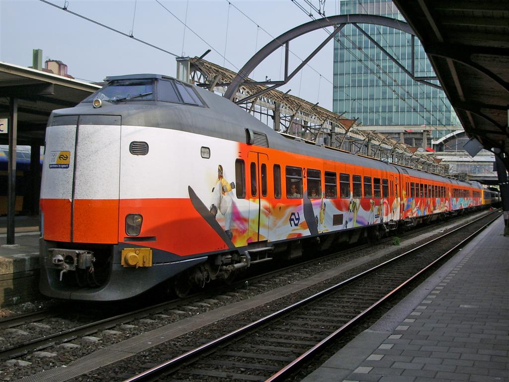 Olympische Koploper (ICM), Utrecht Centraal, may 2006